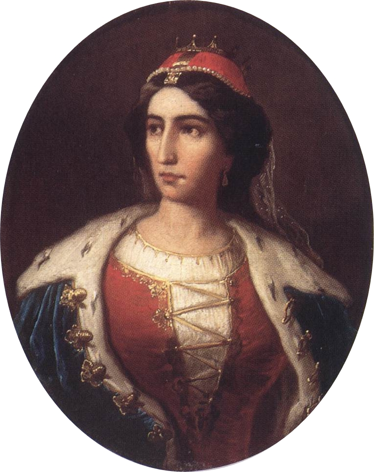 Countess Ilona Zrínyi (1643–1703), Hungarian noble woman, heroine of the anti-Habsburg uprising.